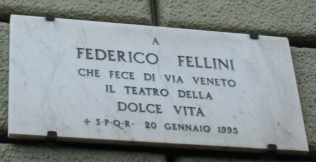 Plaque to Federico Fellini on the Via Veneto, Rome, Italy